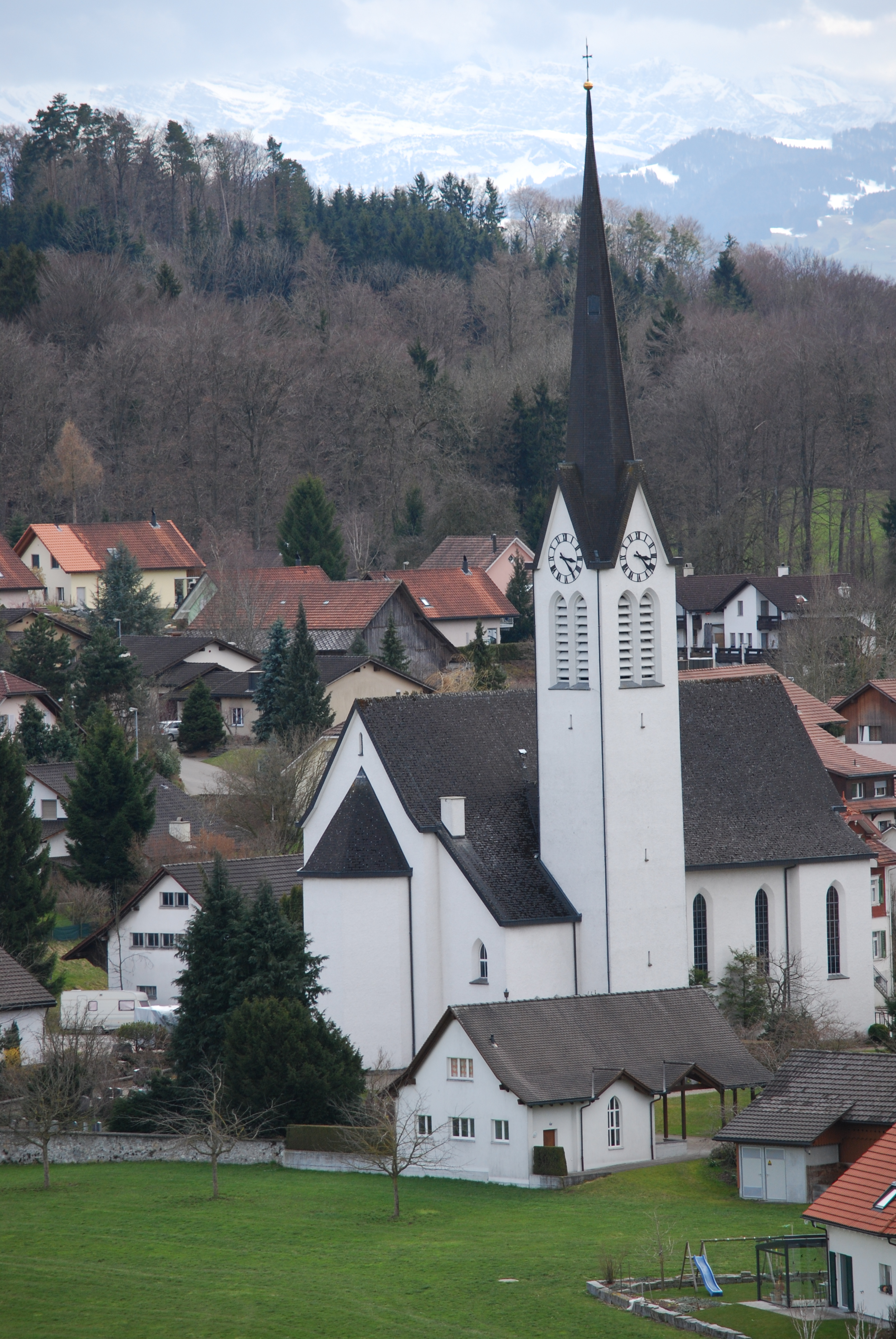 Catholic church of Wuppenau, canton of Thurgovia, SwitzerlandEsperanto: Katolika preĝejo de Wuppenau, Kantono Turgovio, Svislando